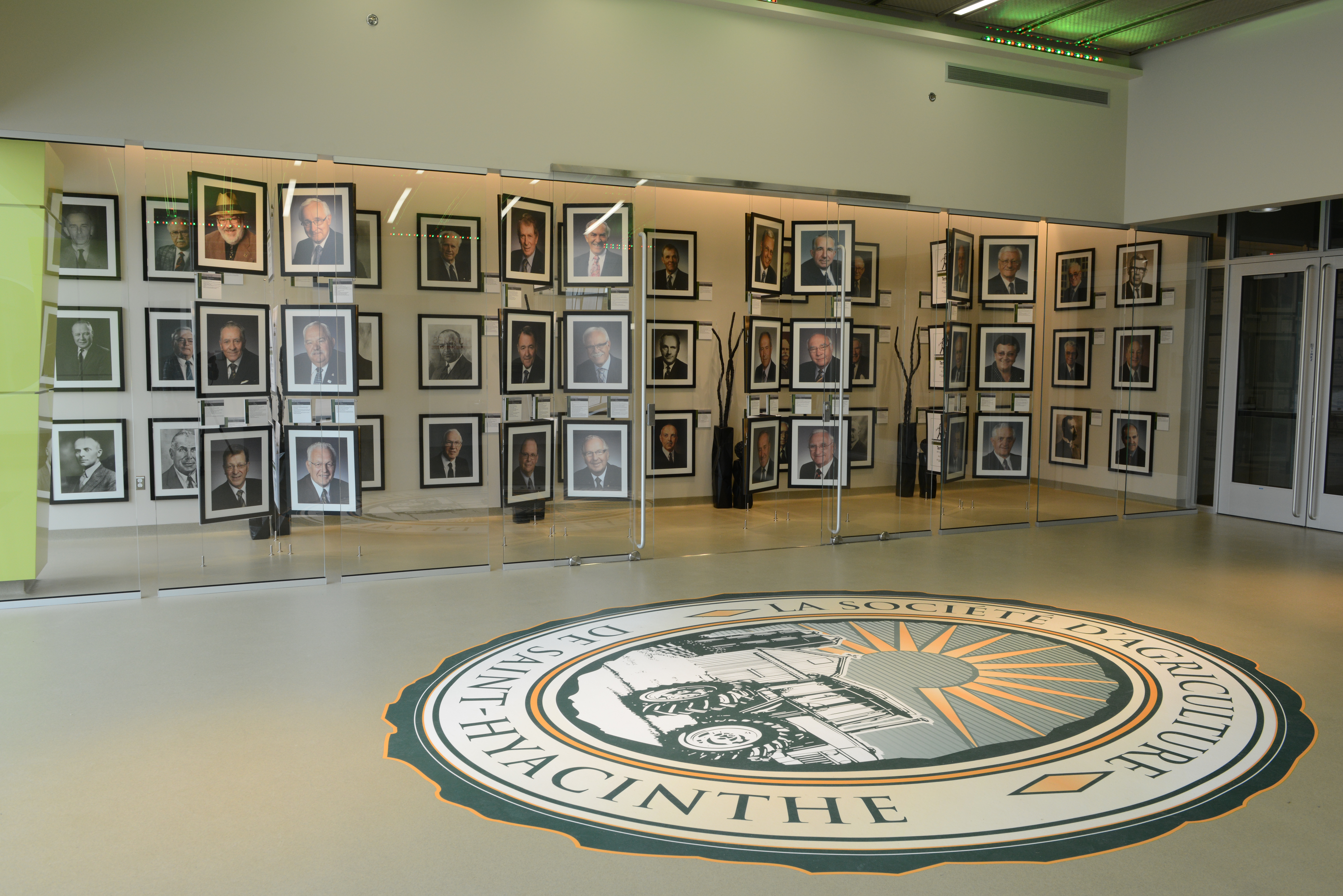 A picture of the exterior of the Agricultural Hall of Fame of Quebec.